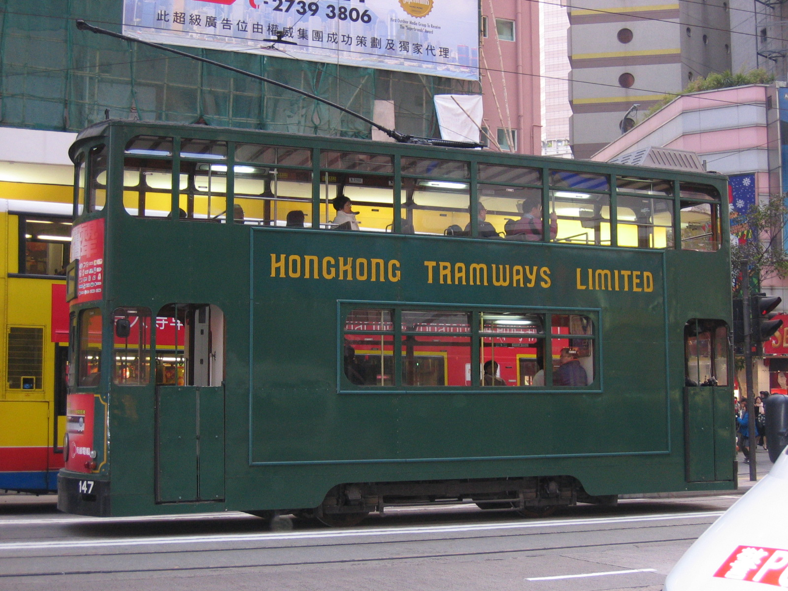 A tram at Hennessy Road, Causeway Bay.